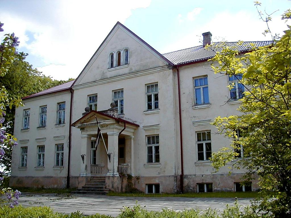 Sērmūkši school building (1936)